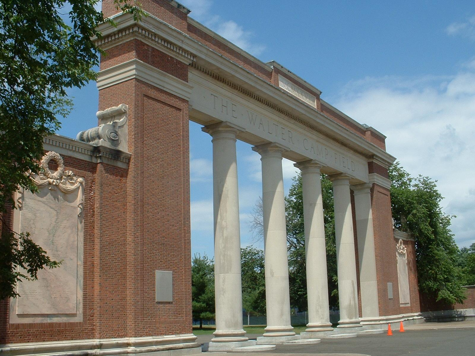 The Walter Camp Gate, entryway to the Yale Athletic Facilities on Derby Road.